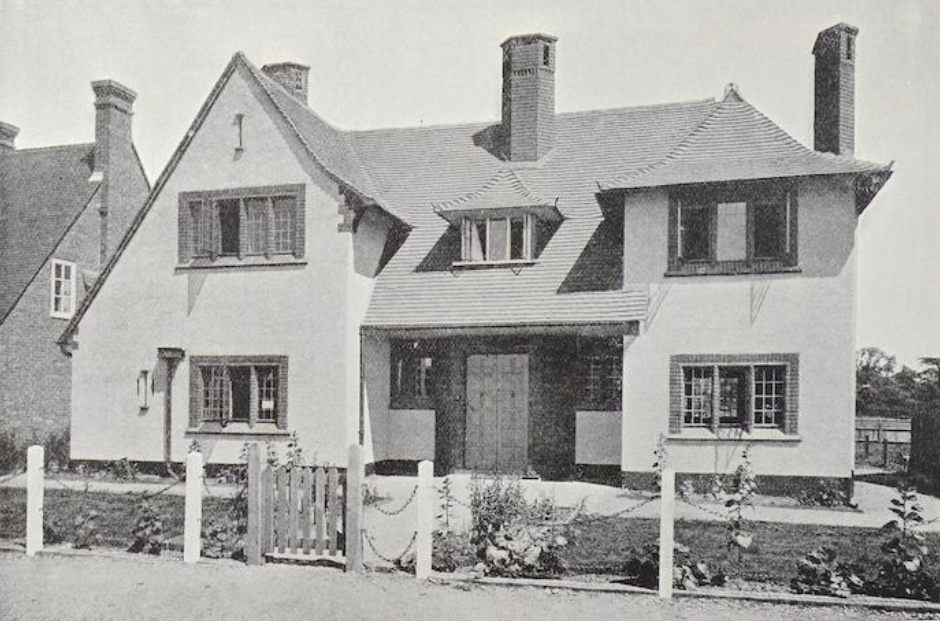 House at Gidea Park, Romford by James Edwin Forbes and John Duncan Tate. From The Studio Yearbook of Decorative Art 1912. 40 Parkway. Gidea Park